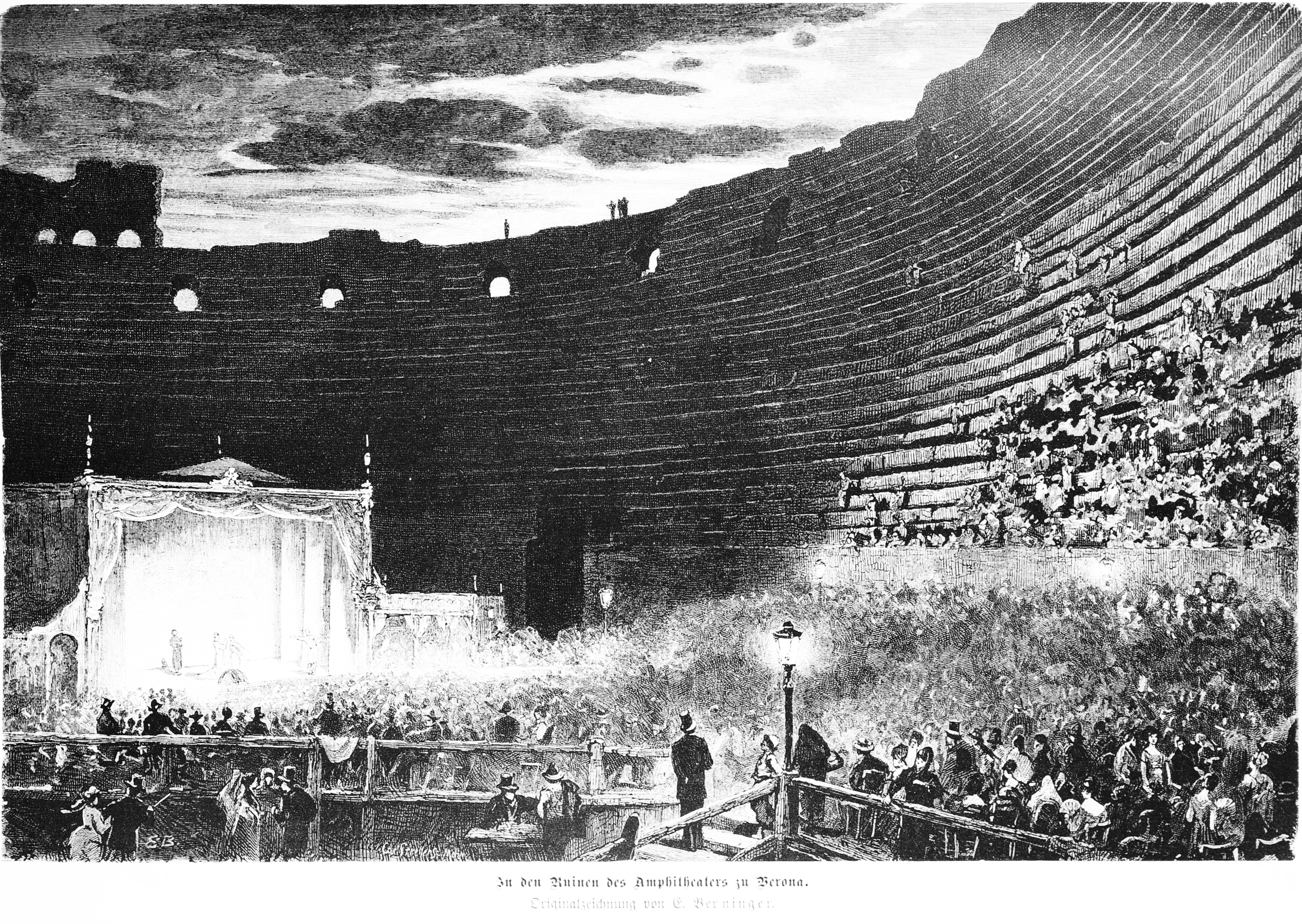 caption: "In den Ruinen des Amphitheaters zu Verona.Originalzeichnung von E. Berninger."